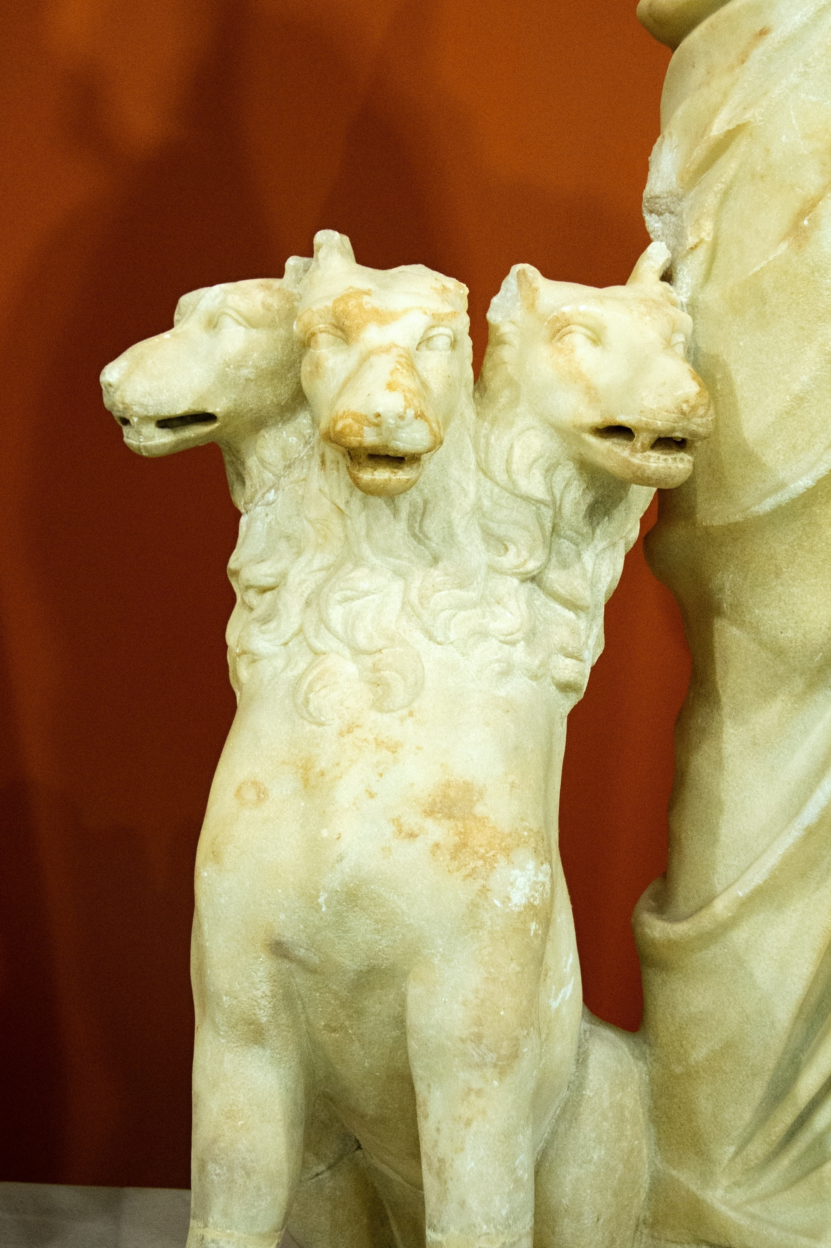 Cerberus, detail. Marble, 2nd century AD. Finding from the Temple of the Egyptian Gods in Gortys. Archaeological museum of Heraklion.